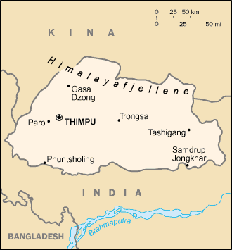 CIA map of Bhutan with Norwegian caption